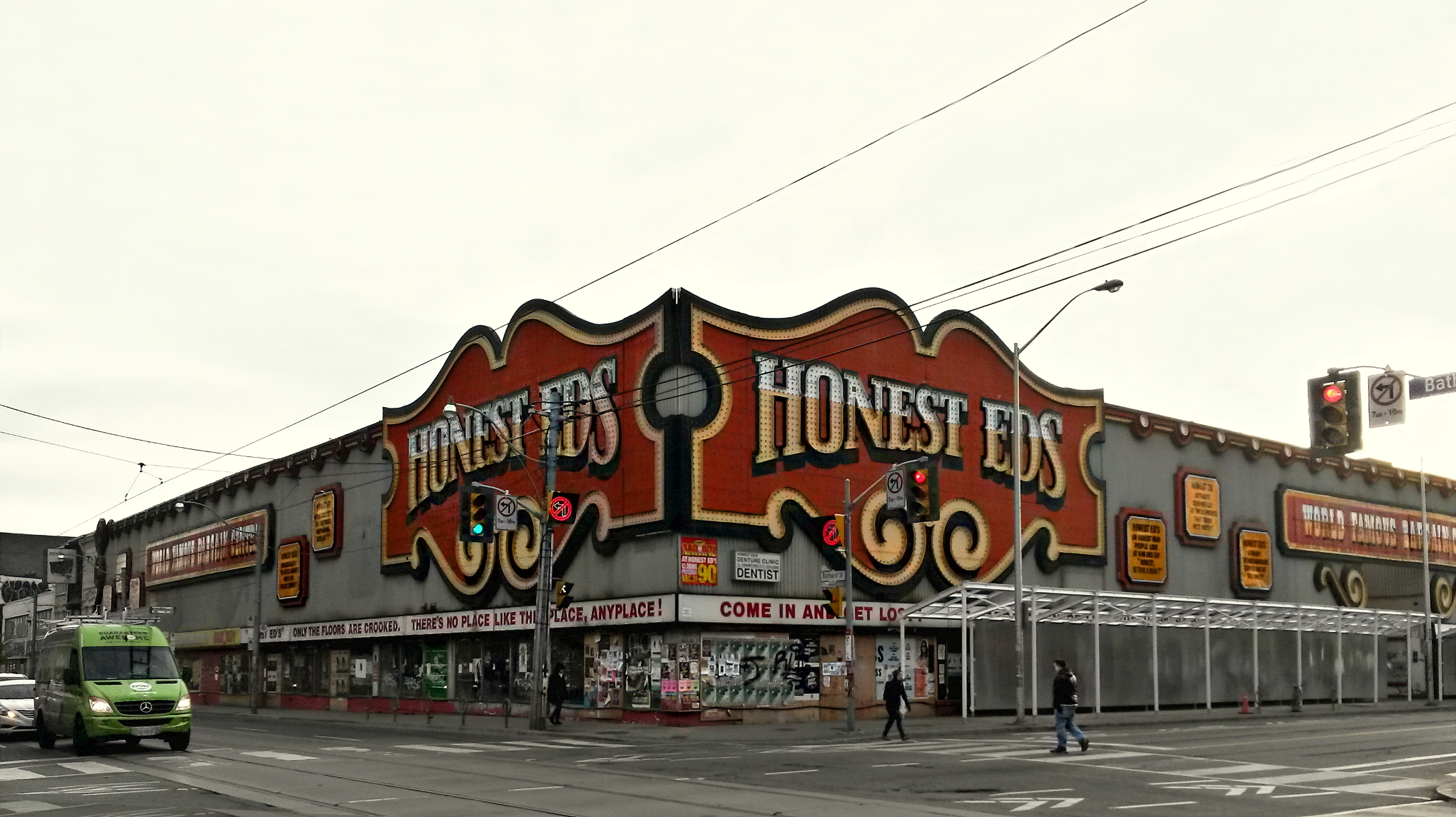 The Toronto landmark store is being demolished to make a space for another apartment building